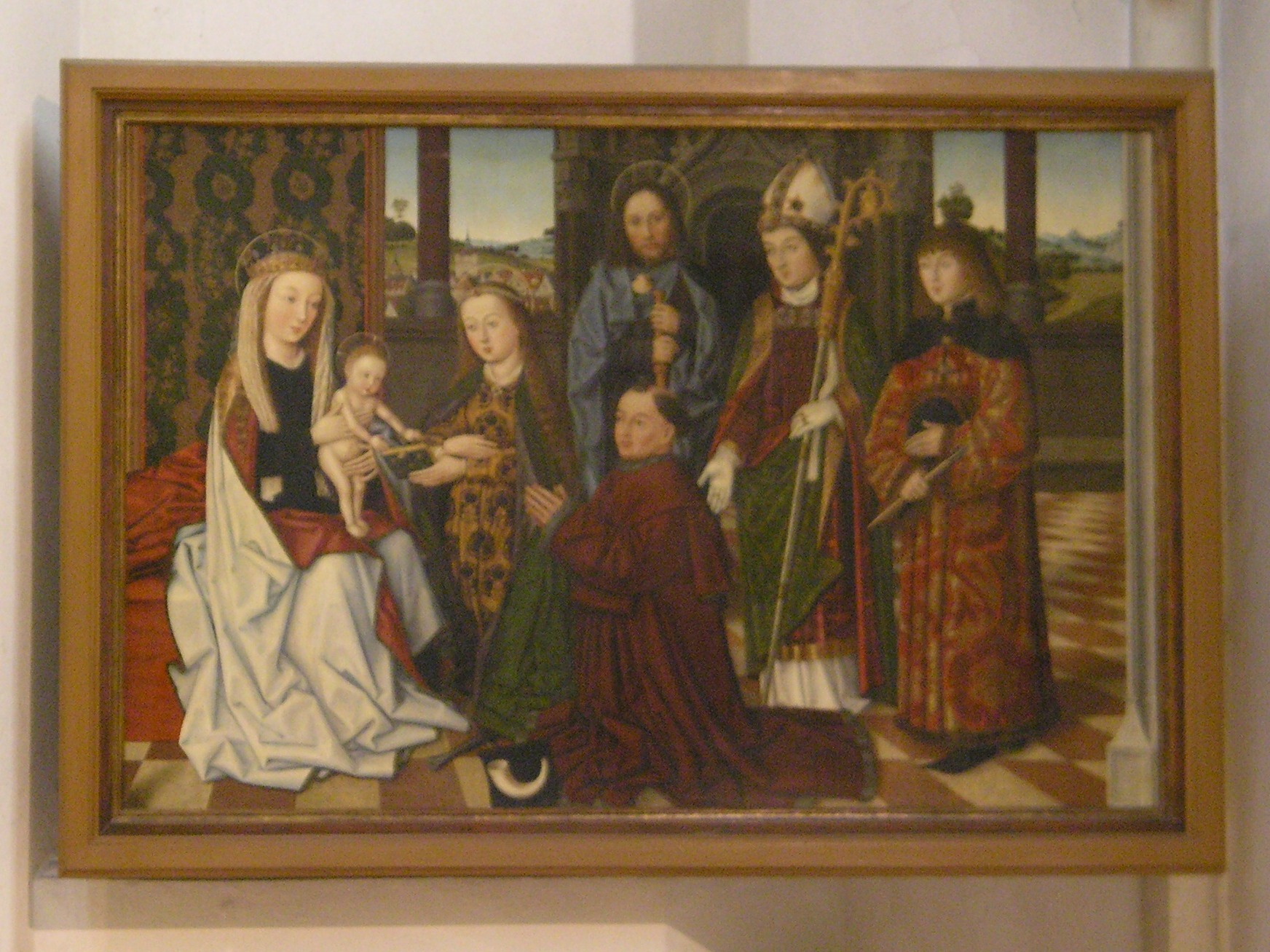 Description: So-called Hornberger Votivbild dated 1462 in the Clemens-Kapelle in the Maria am Gestade church in Vienna. Source: self-made, I release it into the public domain.